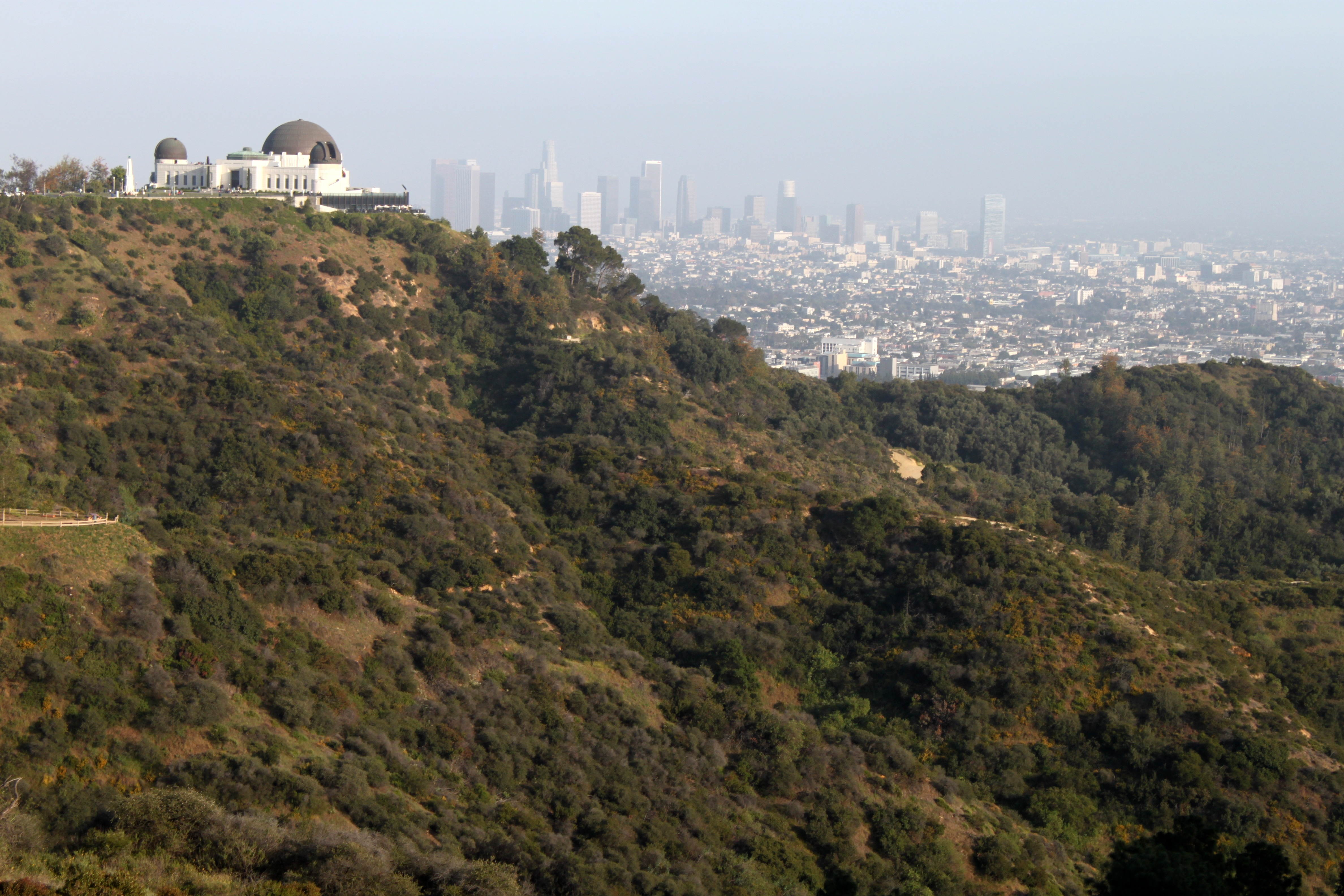 Hiking around Bronson Canyon, Griffith Park.